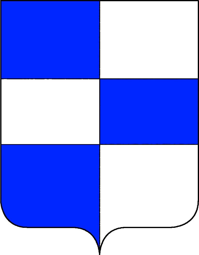 Mula Family coat of arms